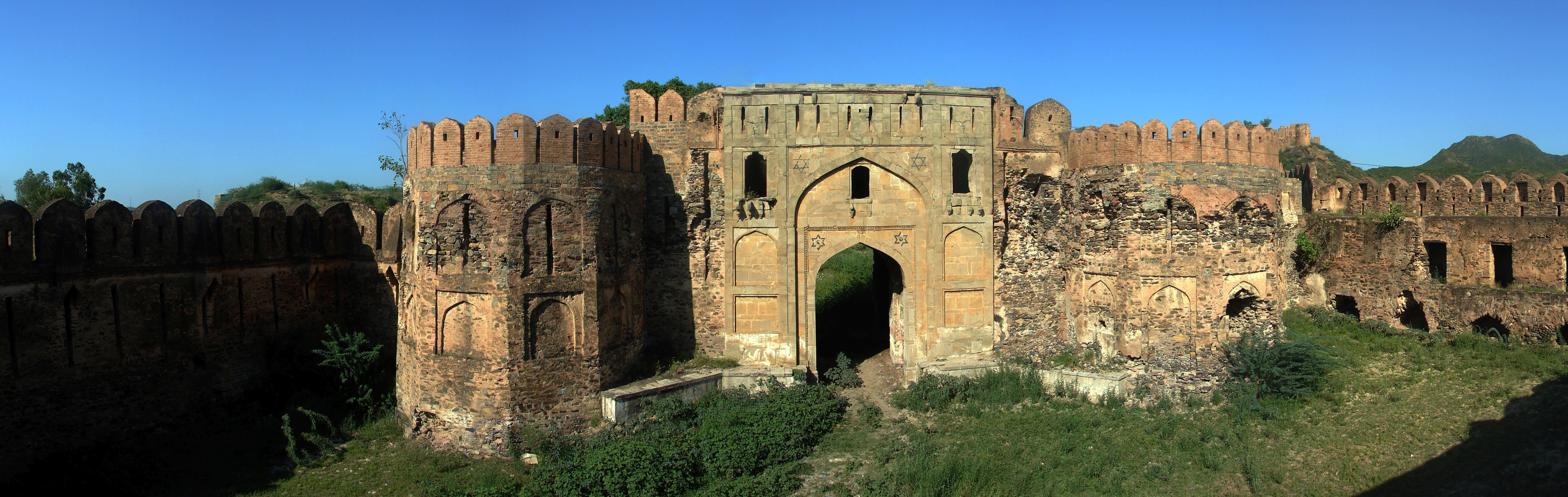 Attock Fort This is a photo of a monument in Pakistan identified as the PB-7